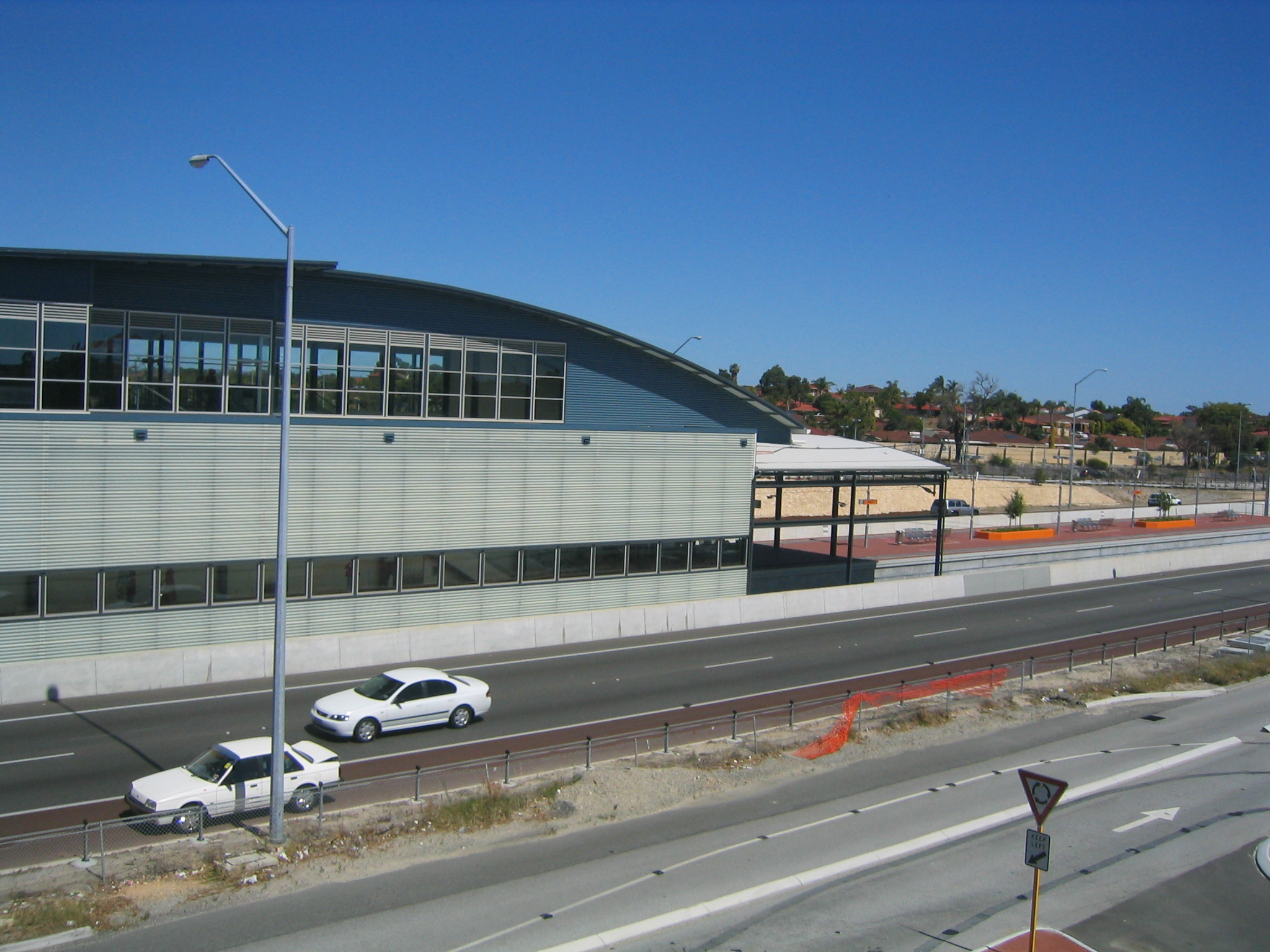 The station building of Murdoch Station, taken from Kwinana Freeway northbound.